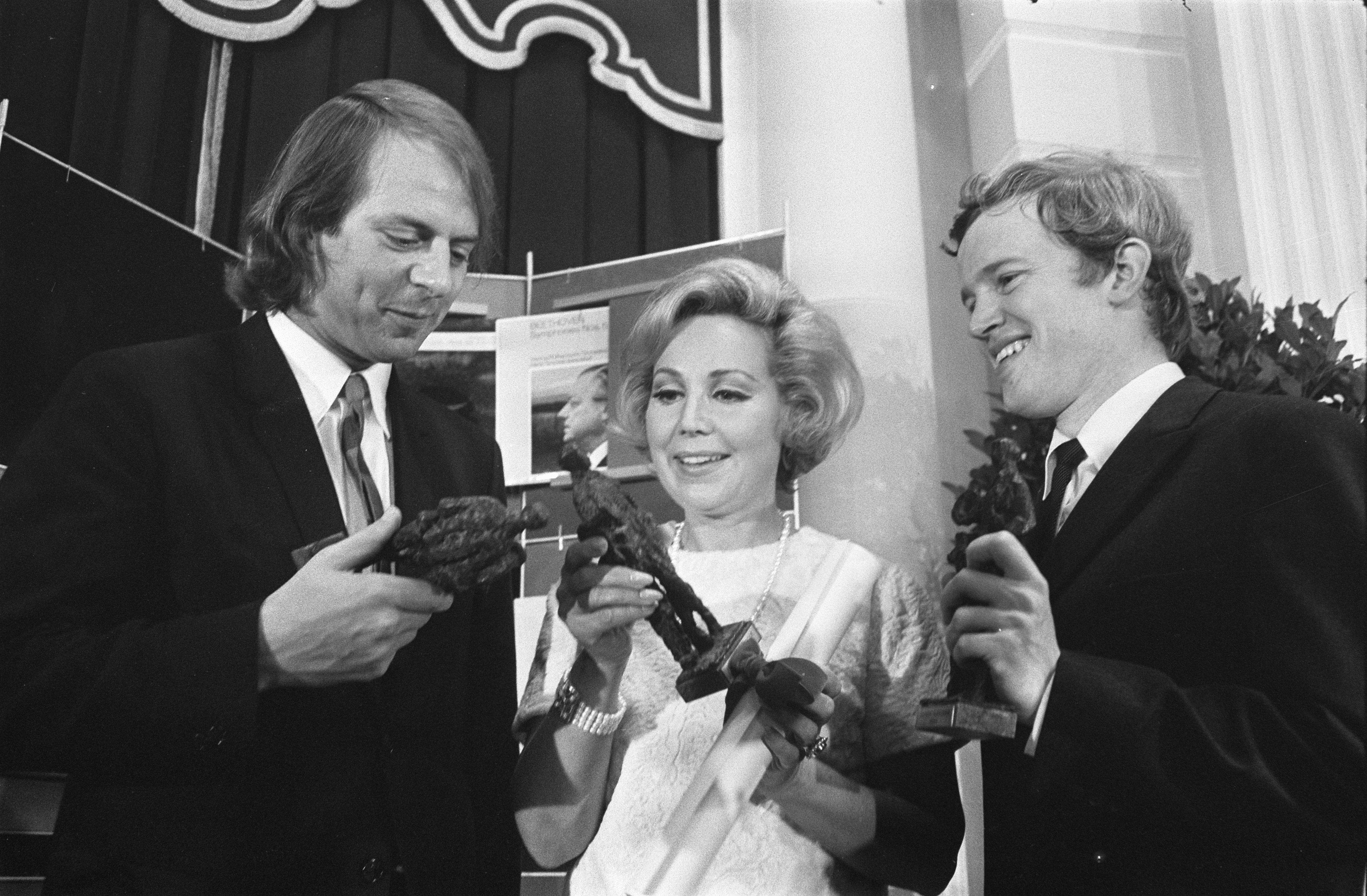 Dutch music award Edison 1969 to (left to right) Karlheinz Stockhausen, Anneliese Rothenberger and Edo de Waart. Concertgebouw Amsterdam, the Netherlands (3 Oct. 1969)